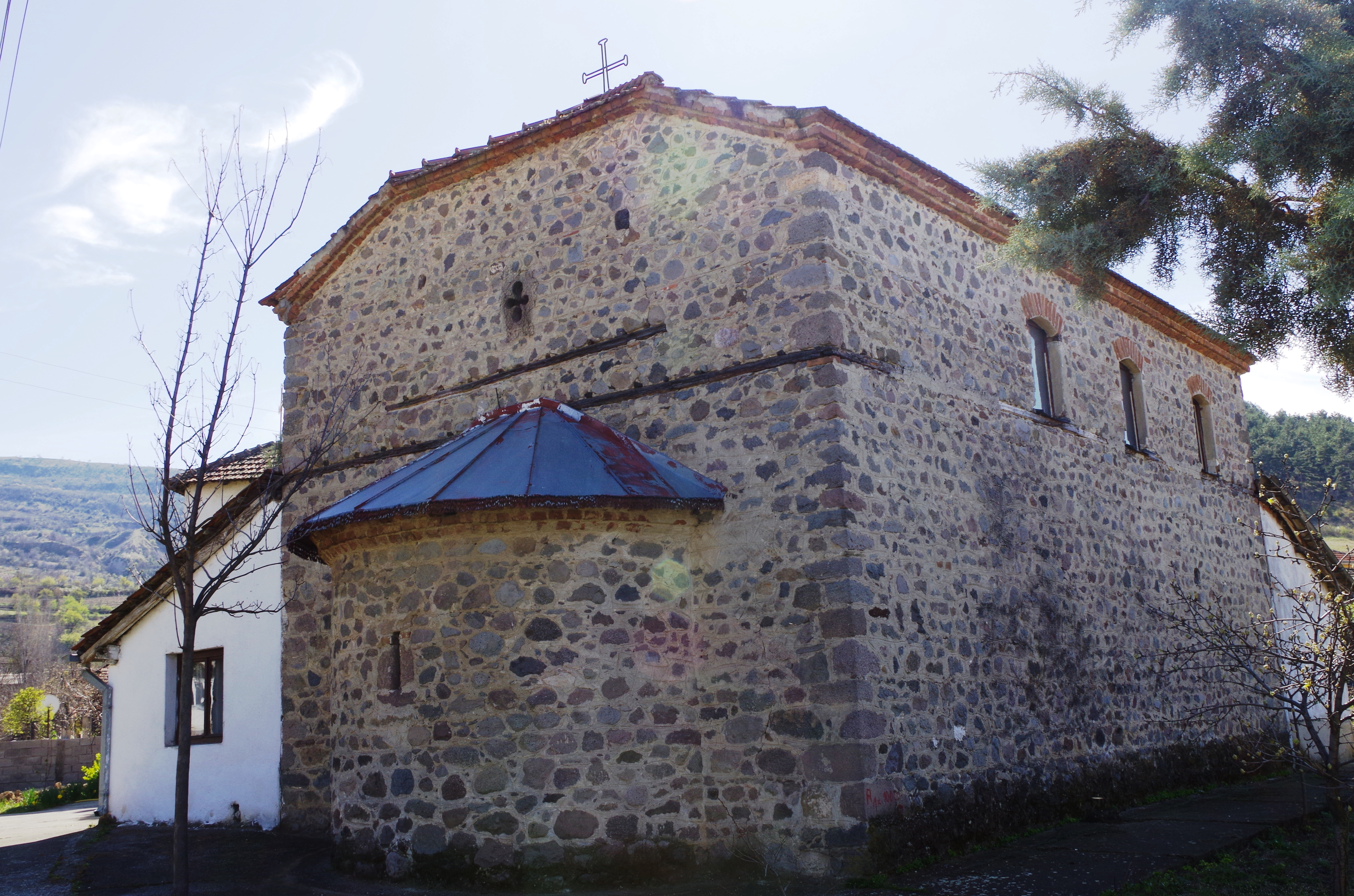 Church in the village Dolni Disan